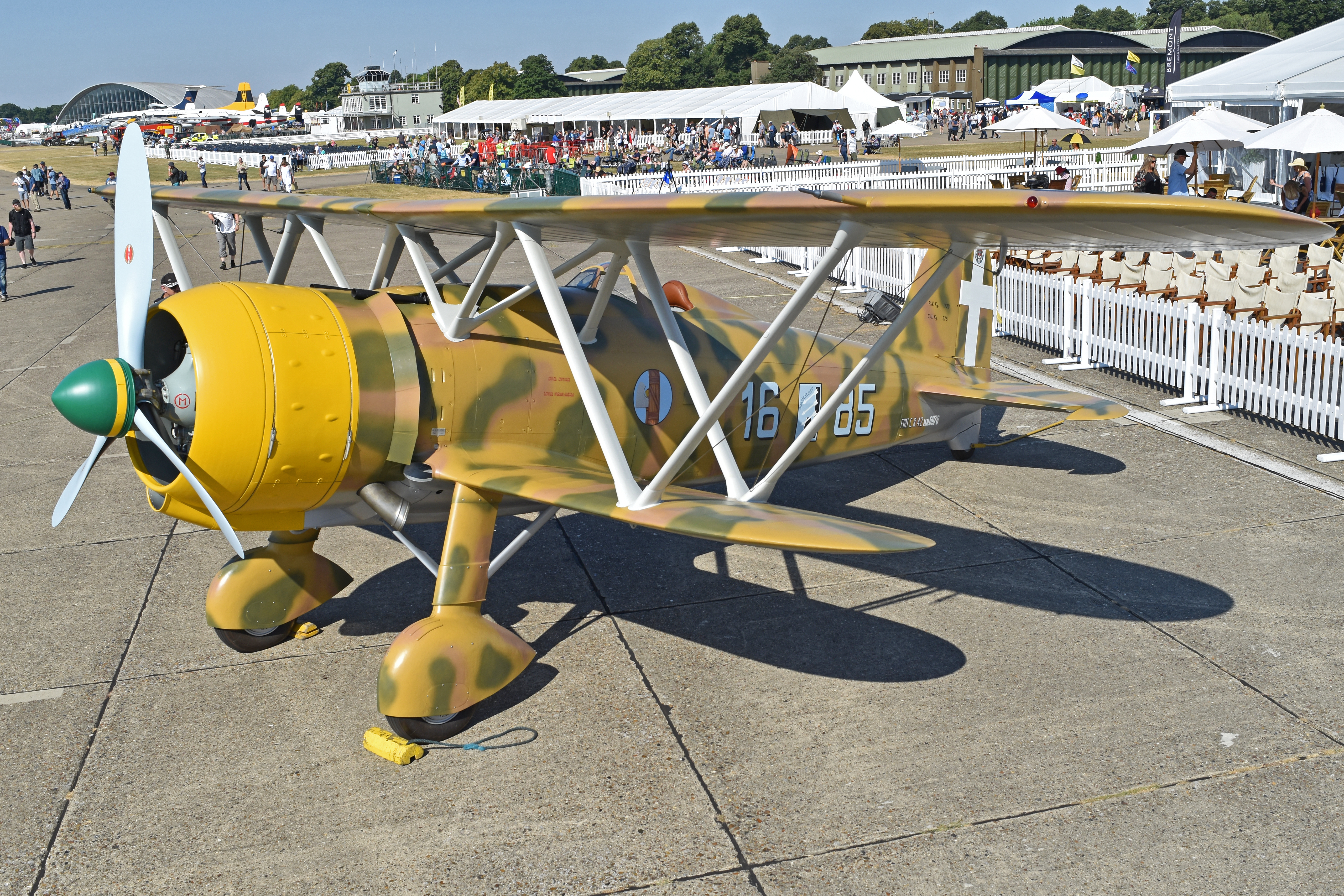 c/n 920. Swedish Air Force serial Fv2542. Only four CR42 fighters are known to exist. With three of them firmly residing in the national museums of the UK, Sweden and Italy, this fourth machine is something very special because she is destined to fly. Recovered from a crash site in Sweden in 1983, she has undergone a long and complex restoration which started in Venegono, Italy, before moving to Duxford and more recently to nearby Audley End. Now complete, this Fighter Collection aeroplane was returned to Duxford and reassembled just in time to make a static appearance on the morning of the annual Flying Legends Airshow. Duxford Airfield, Cambridgeshire, UK. 14th July 2018.